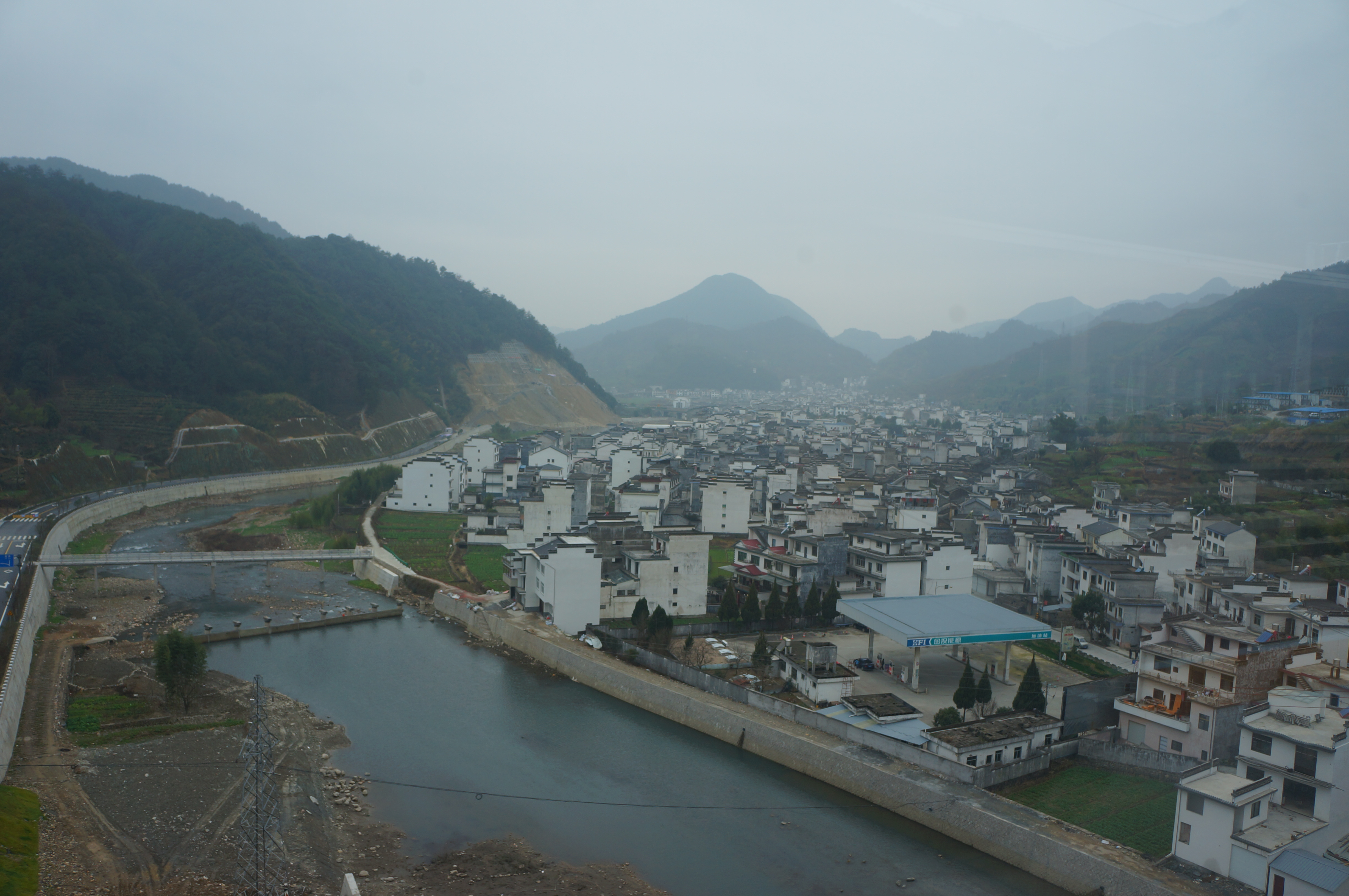 Taken on the Platform of Sanyang Railway Station